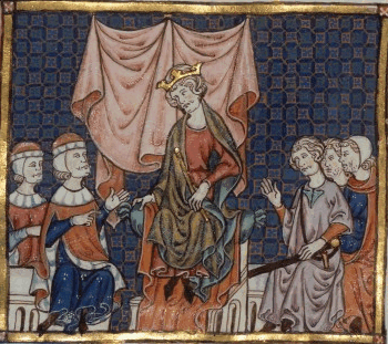 James II of Aragon